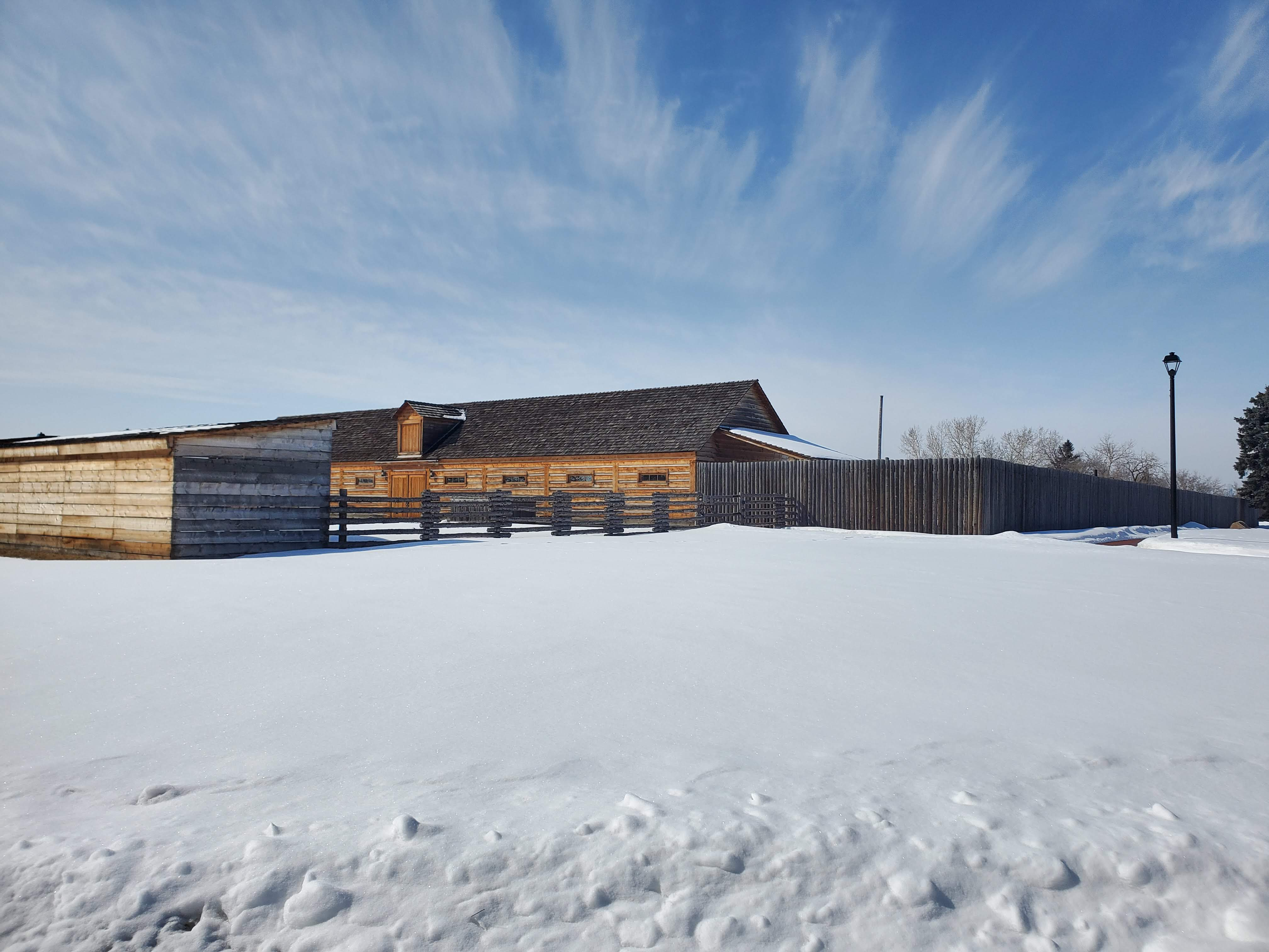 The replica of Fort Saskatchewan, with the horse stables on the left